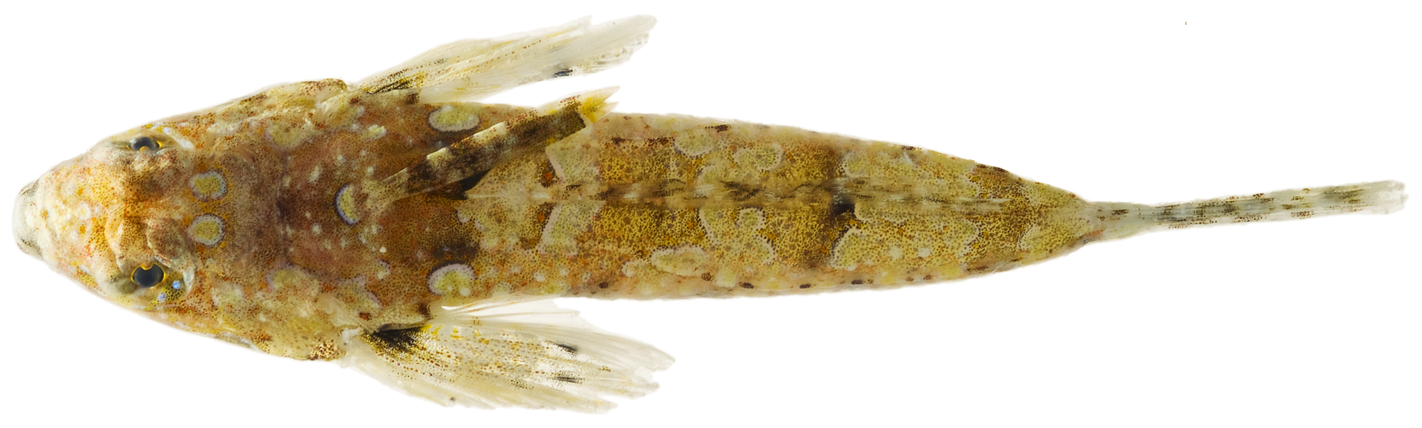 Paradiplogrammus bairdi Jordan, 1888—lancer dragonet, 29.8 mm SL, dorsal view of a smaller adult male. Photo by JT Williams.